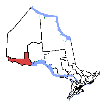 Map of the Thunder Bay—Rainy River electoral district. Based on Earl Andrew's maps, created by SimonP.